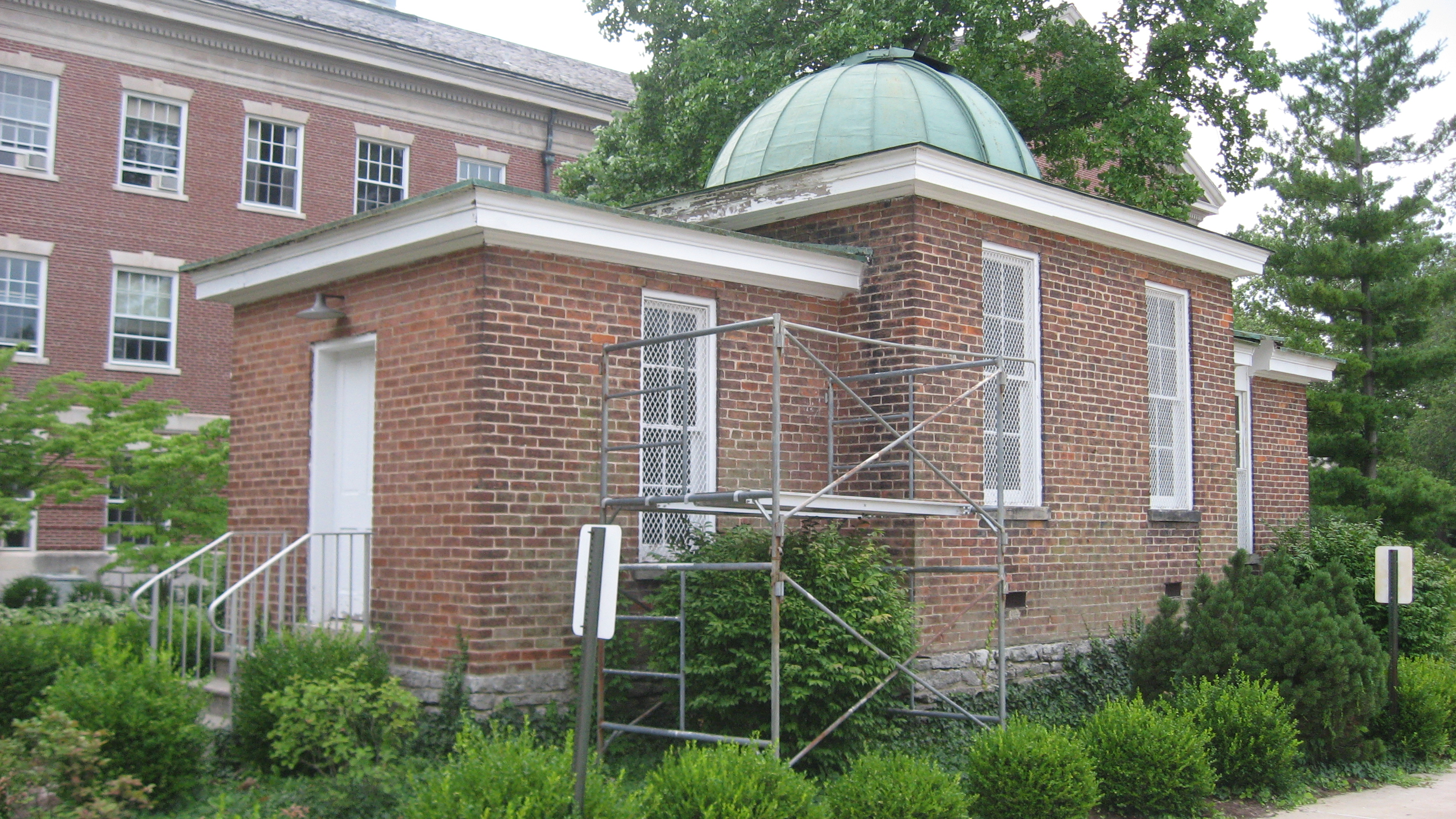 Northern and eastern sides of the Earlham College Observatory, located off U.S. Route 40 (the National Road) on the campus of Earlham College in Richmond, Indiana, United States. Built in 1861, it is listed on the National Register of Historic Places.